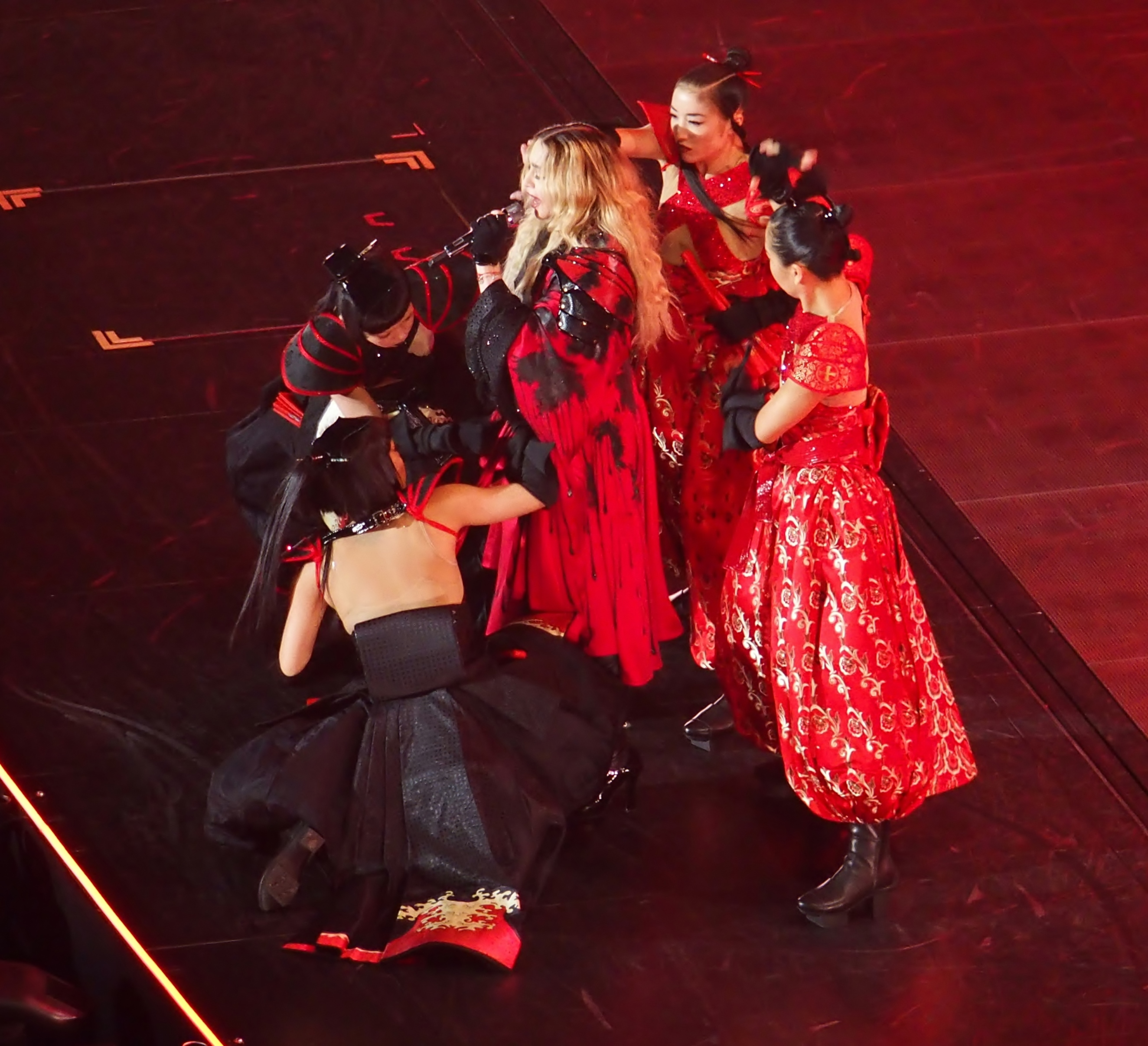 Madonna, Rebel Heart Tour, Bell Center, Olympus Stylus 1, Montréal, 10 September 2015 (5) Madonna performing on the Rebel Heart Tour